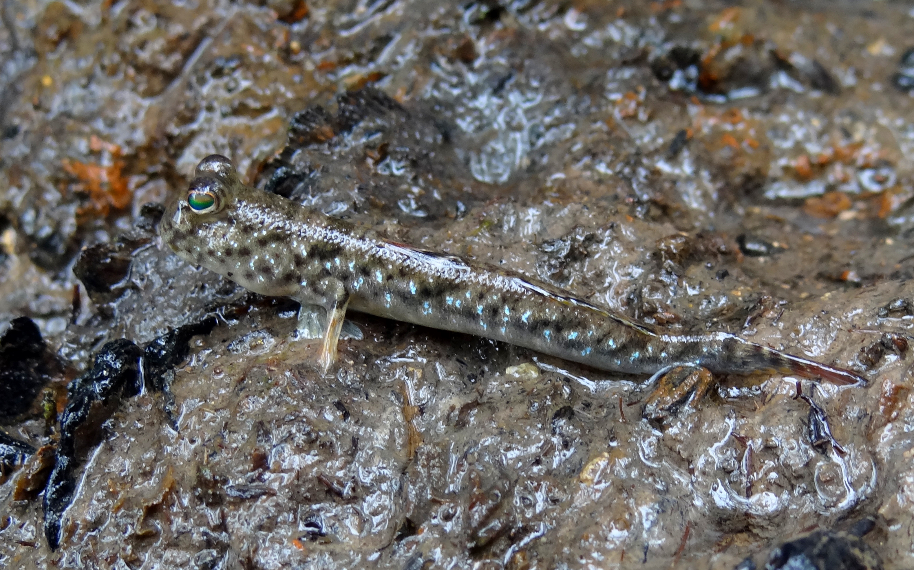 A mudskipper in the wild, living on the small island of Pulau Ubin in the north of Singapore.